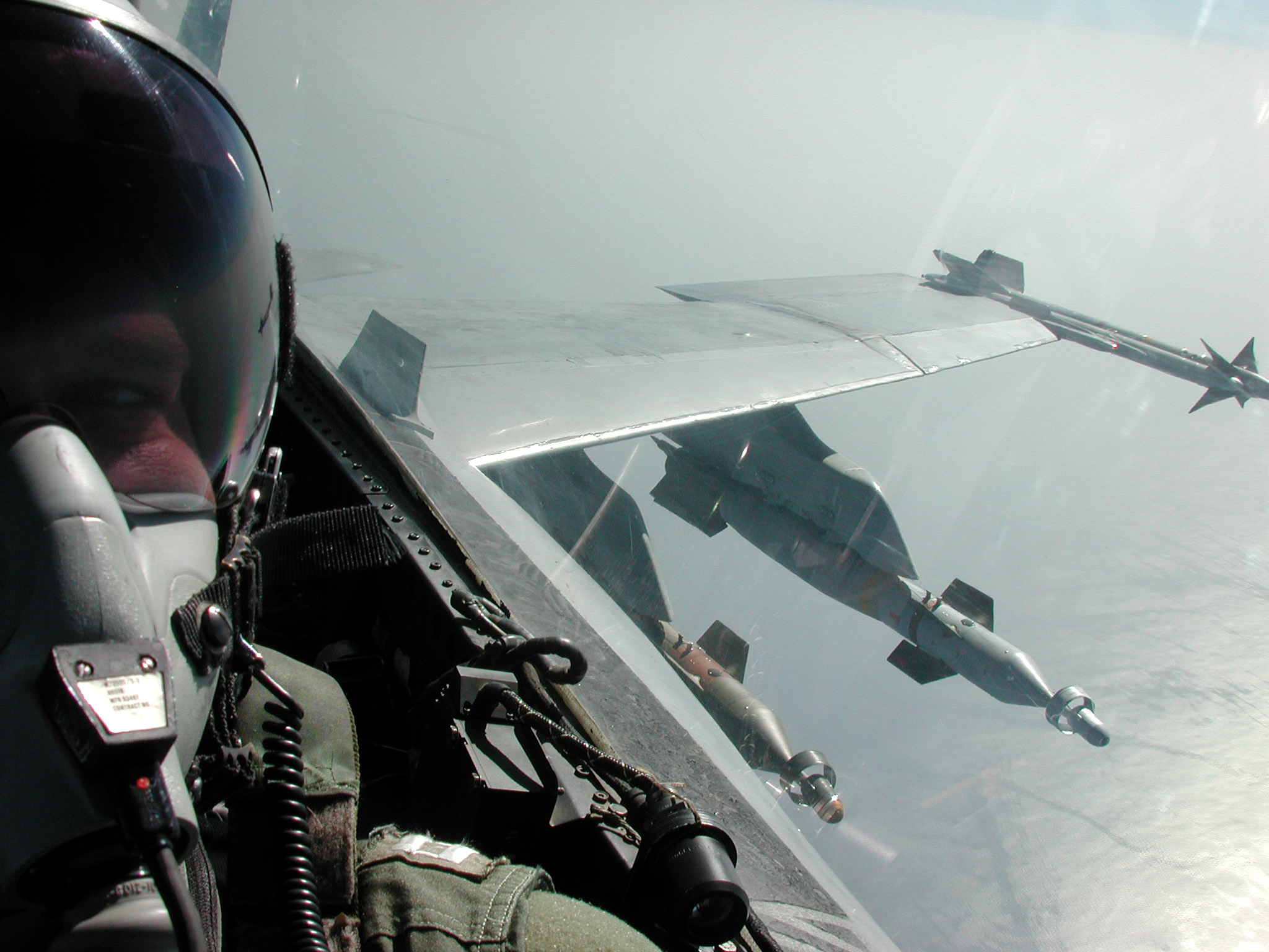 011031-N-3405L-007 In the skies over Afghanistan (Oct. 31, 2001) – Two 500-pound Laser Guided Bomb Units (GBU-12) (left) and an AIM-9 “Sidewinder” short-range air-to-air missile are visible on the wing of an F/A-18 “Hornet” from the "Mighty Shrikes" of Strike Fighter Squadron Nine Four (VFA-94). VFA-94 is assigned to Carrier Air wing Eleven (CVW 11) aboard USS Carl Vinson (CVN 70) and conducting missions in support of Operation Enduring Freedom. U.S. Navy photo by Lt. Steve Lightstone. (RELEASED)